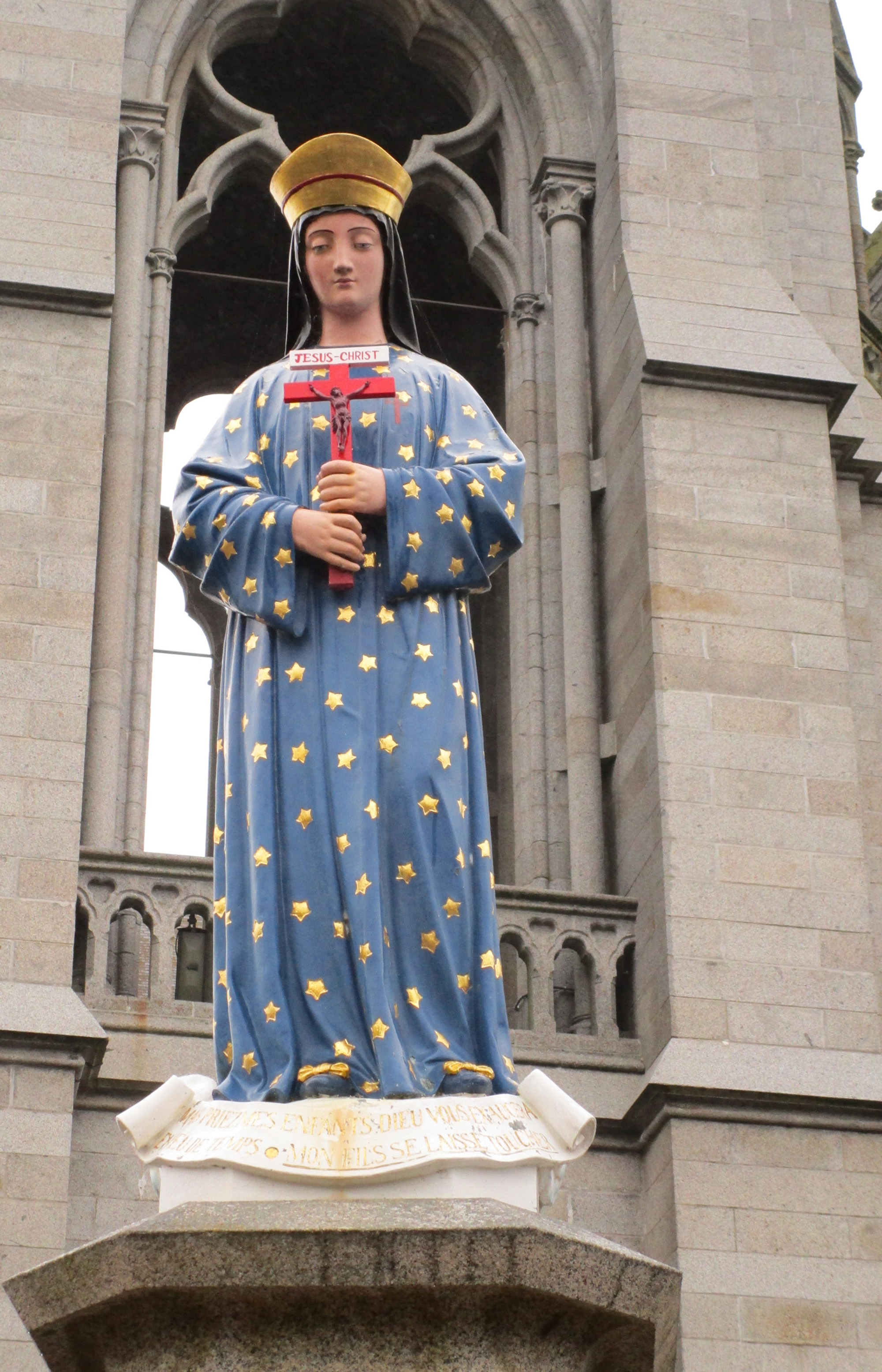 Statue of Our Lady of Pontmain. Pontmain's Square, Mayenne Depatment, France